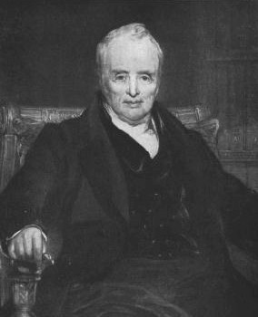 Author: Engraving by David Lucas (1802-1881), 1844, after a painting by Richard Rothwell (1800 - 1868). Contemporary portrait of William Conygham Plunket (died 1854) Location of original: British Museum Photograph, J.R. Freeman & Co. Ltd. URL